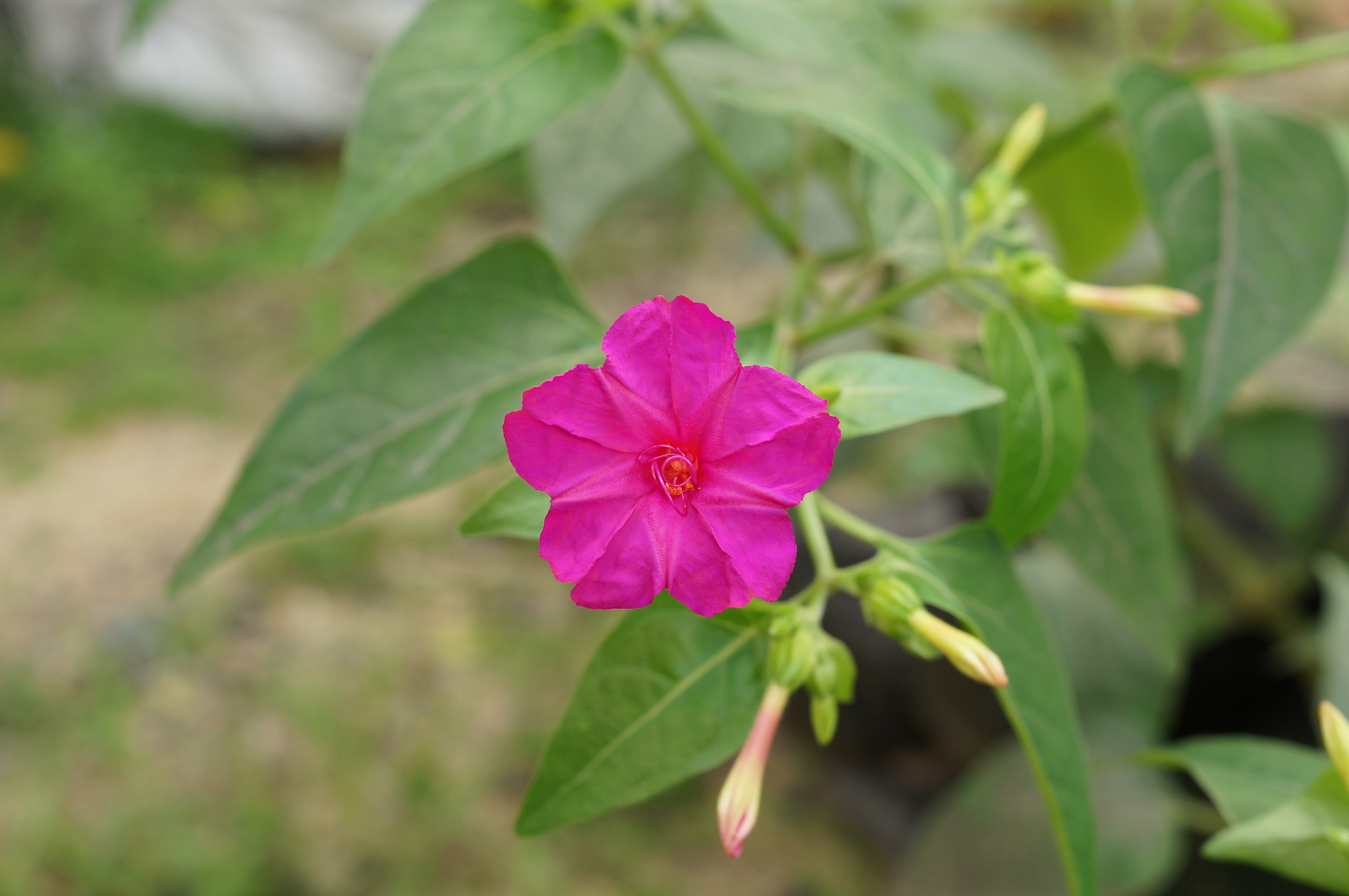 Four o'clock flower